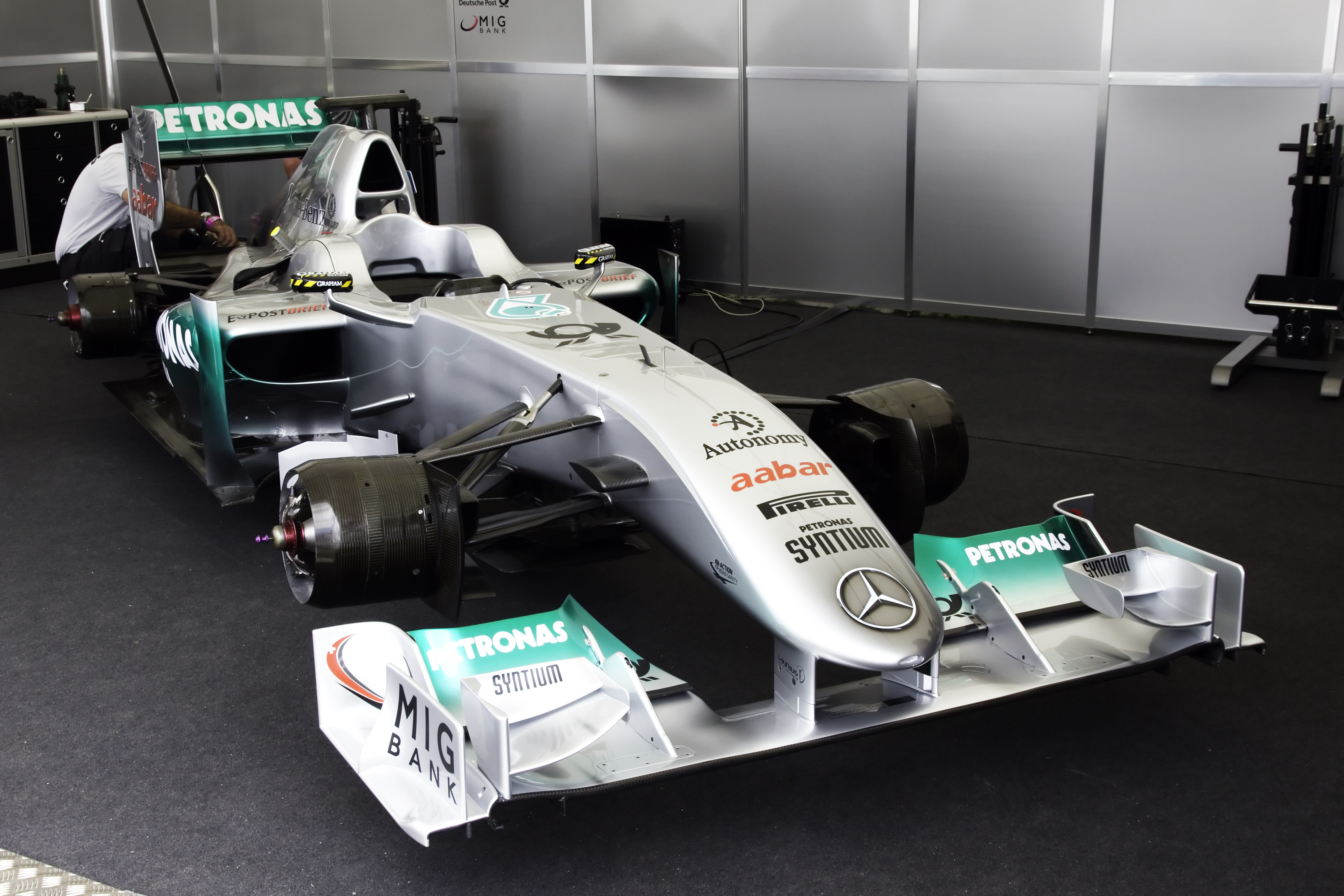 Mercedes MGP W02